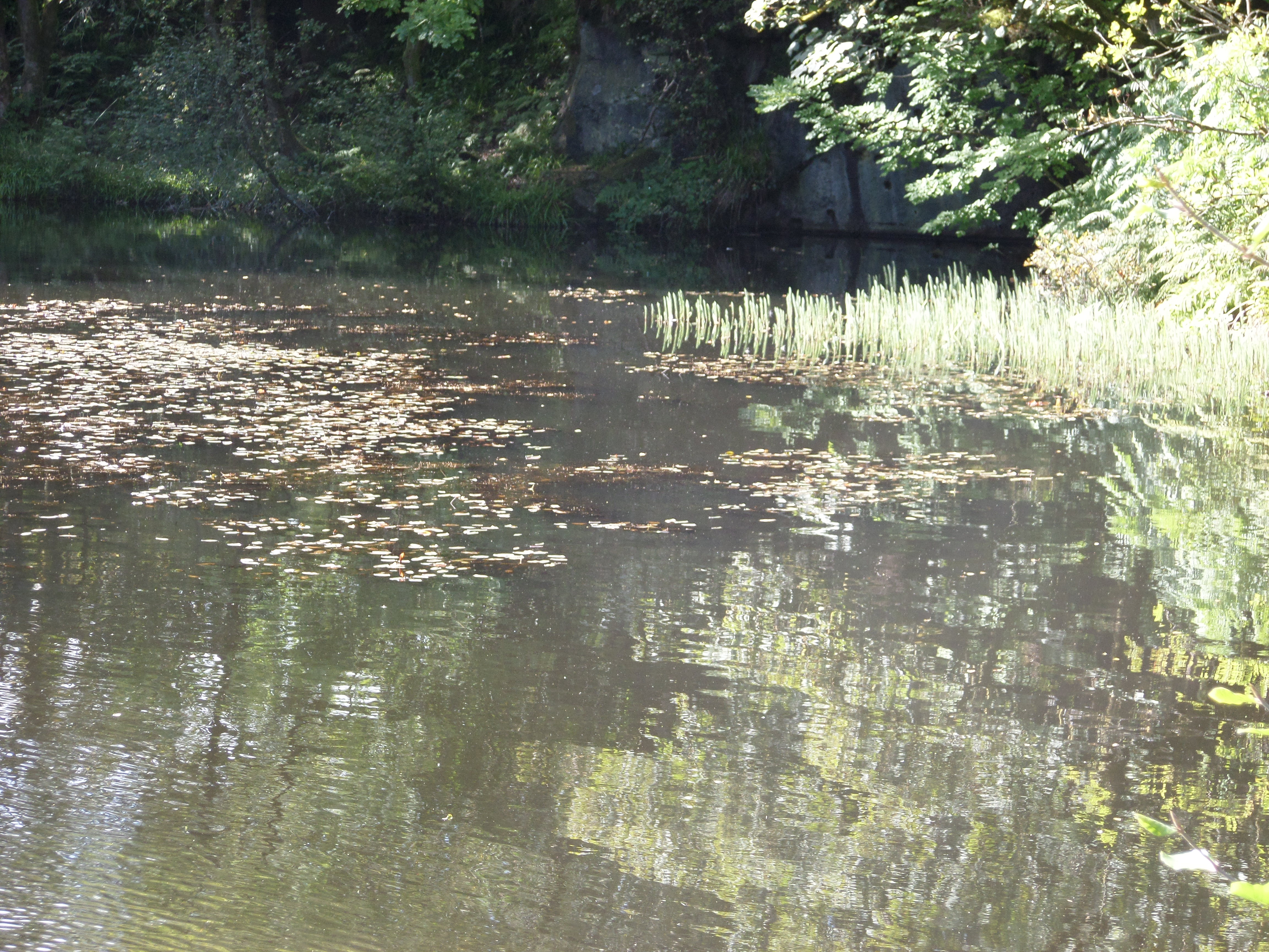 The Blue Waters at Ravenscraig Quarry with Mare's tail and Pondweed, North Lissens, Dalry, North Ayrshire, Scotland.